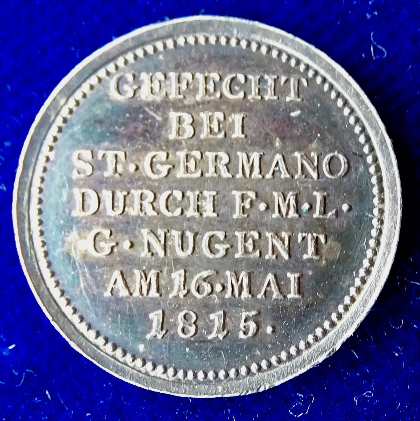 1815 Austrian Silver Medal Battle of San Germano, Italy in the Napoleonic Wars. Medallion d. = 19 mm. 2.10g Ag The Battle of San Germano (or the Battle of Mignano) was the final battle in the Neapolitan War between an Austrian force commanded by Laval Nugent von Westmeath and the King of Naples, Joachim Murat. The battle started on 15 May 1815 and ended on 17 May, after the remaining Neapolitan force was routed at Mignano. Laval Nugent von Westmeath, Count, Austrian Field Marshal, 1777 Ballynacor, County Westmeath, Ireland - 1862 Karlovac, Croatia, Austrian Empire Helmet shield and 4 flags within springs / 7 lines: "GEFECHT BEI ST. GERMANO DURCH F· M· L· G· NUGENT AM 16. MAI 1815." Julius 3314; Wurzbach 6894. Condition: EXTREMELY FINE+, light old patina.